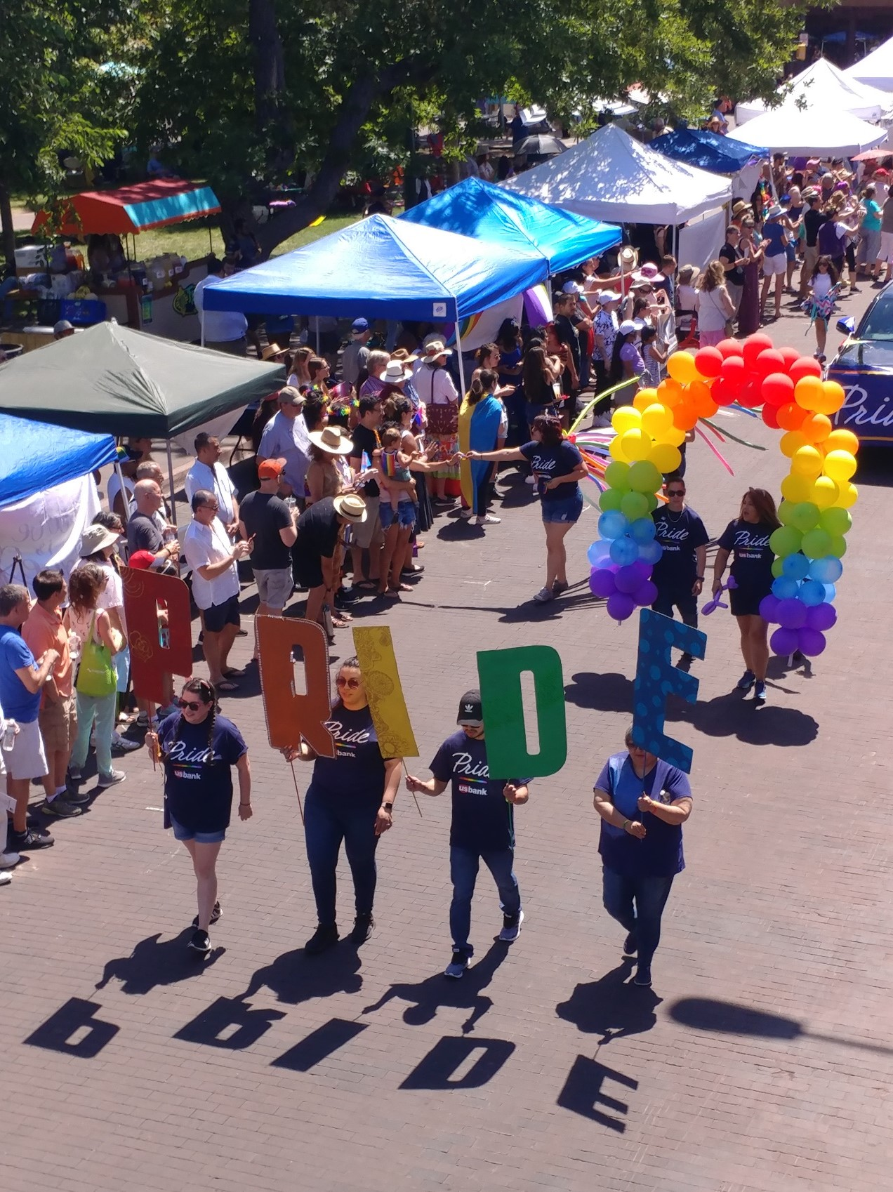 Santa Fe Pride Parade...June 29, 2019Location: USA New MexicoEvent type: Pride in the PlazaDate or year: June 29, 2019